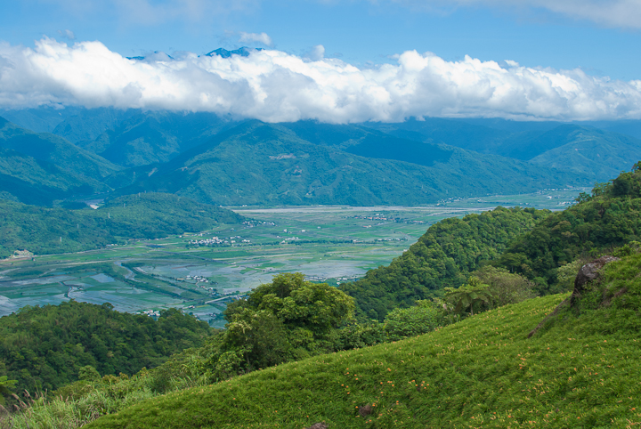 Huatung Valley from Mount Liushishi.